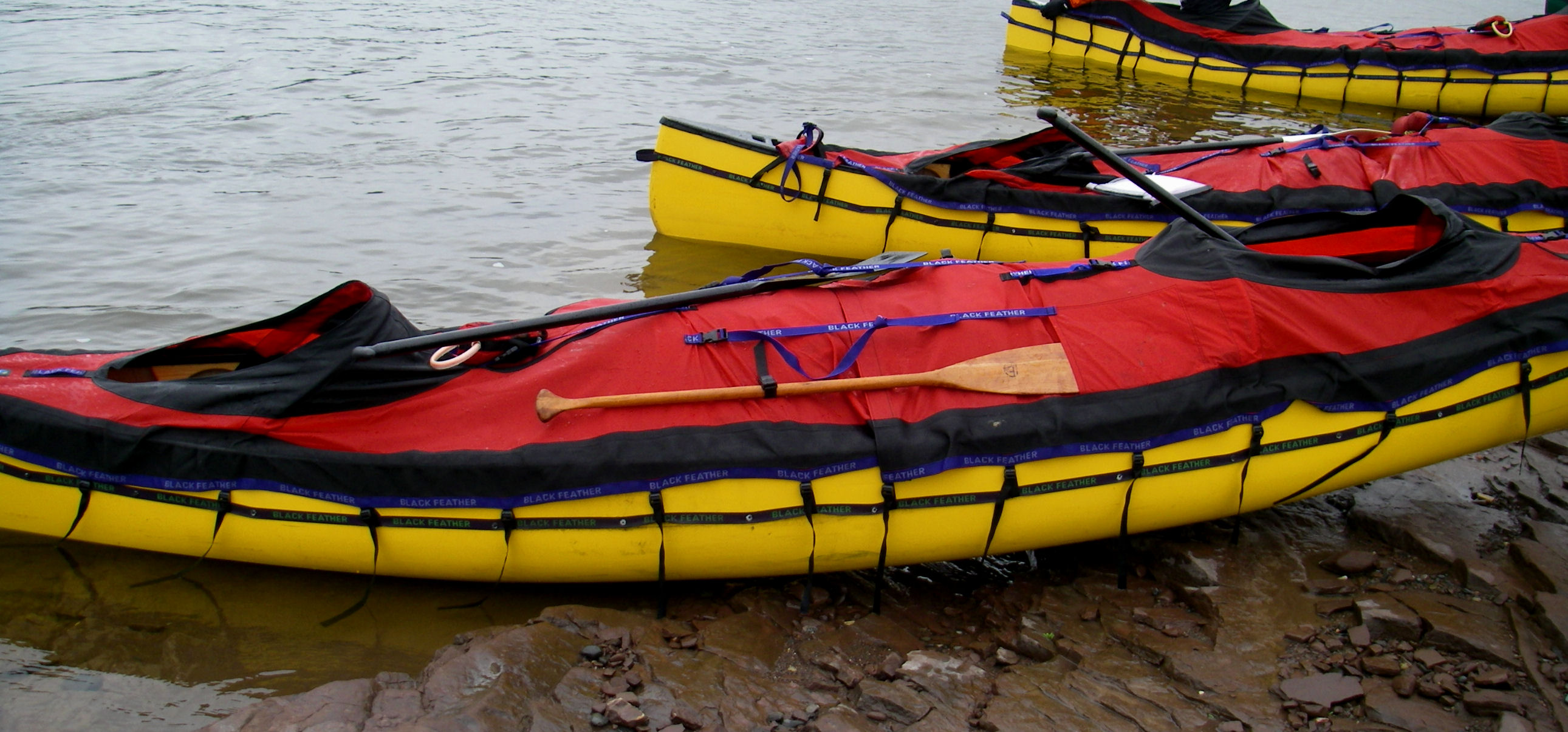 River (ABS) canoes with spraydecks for rough waters. Coppermine River, Nunavut, Canada